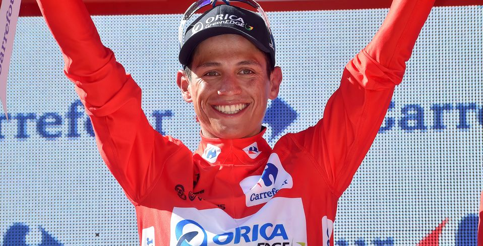 Esteban Chaves in the red jersey at La Vuelta 2015